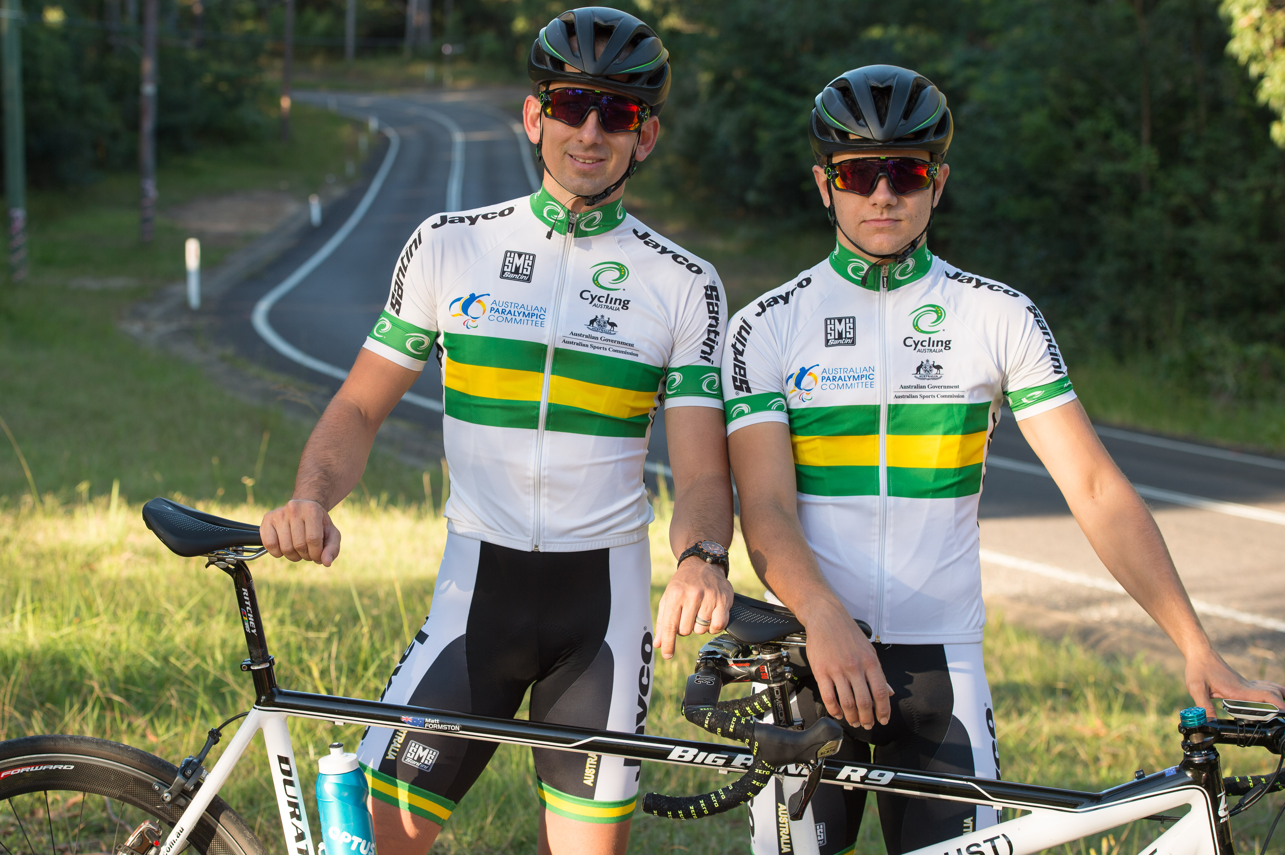 Matt Formston and Nick Yallouris